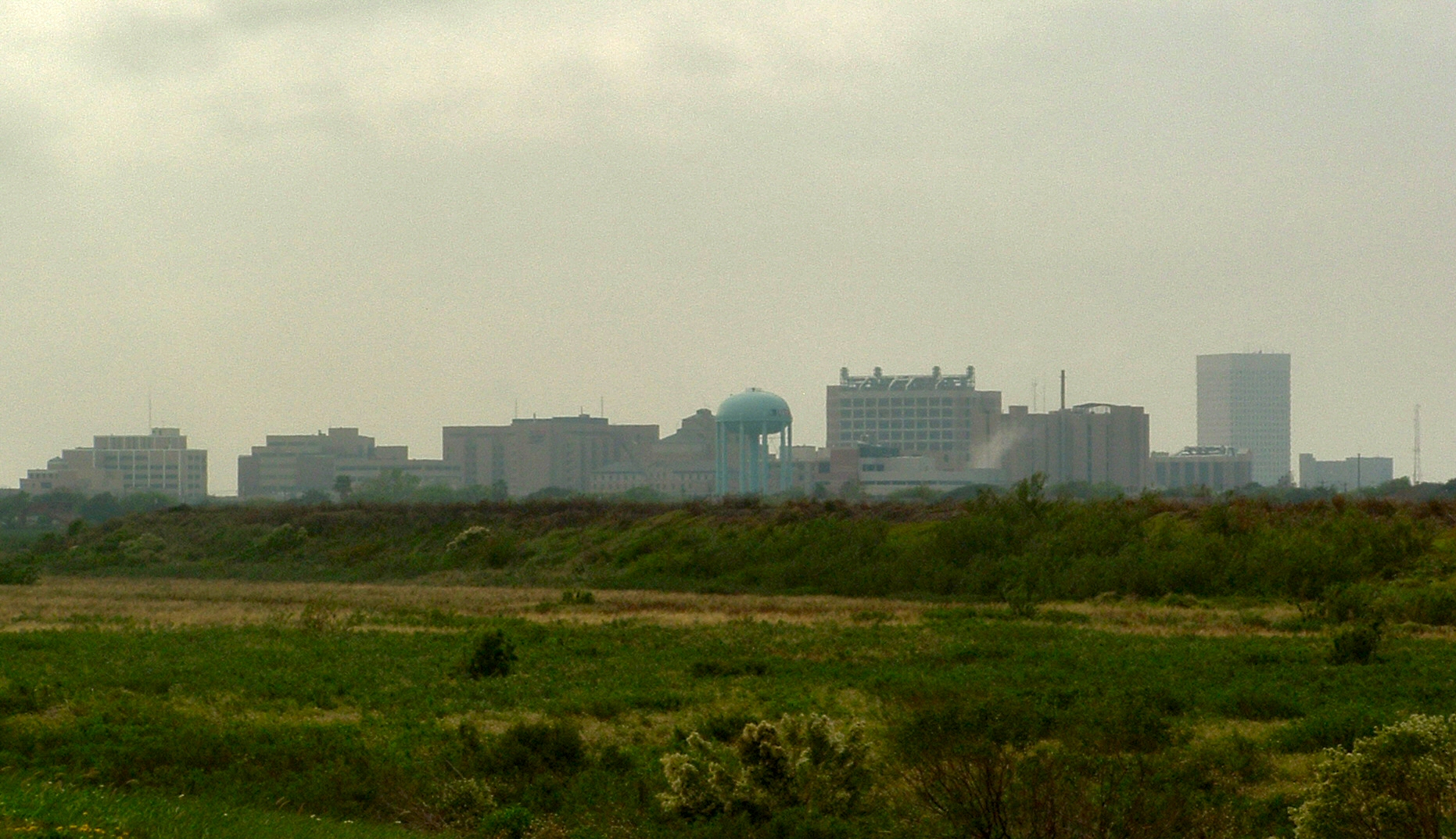 UTMB Campus. Taken from the East End of Galveston Island. Photo by Nick Saum